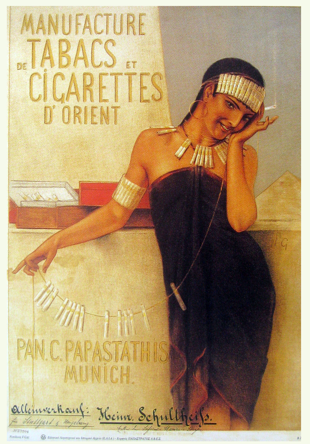 Advertising of the Greek-German tobacco company Papastathis from Munich